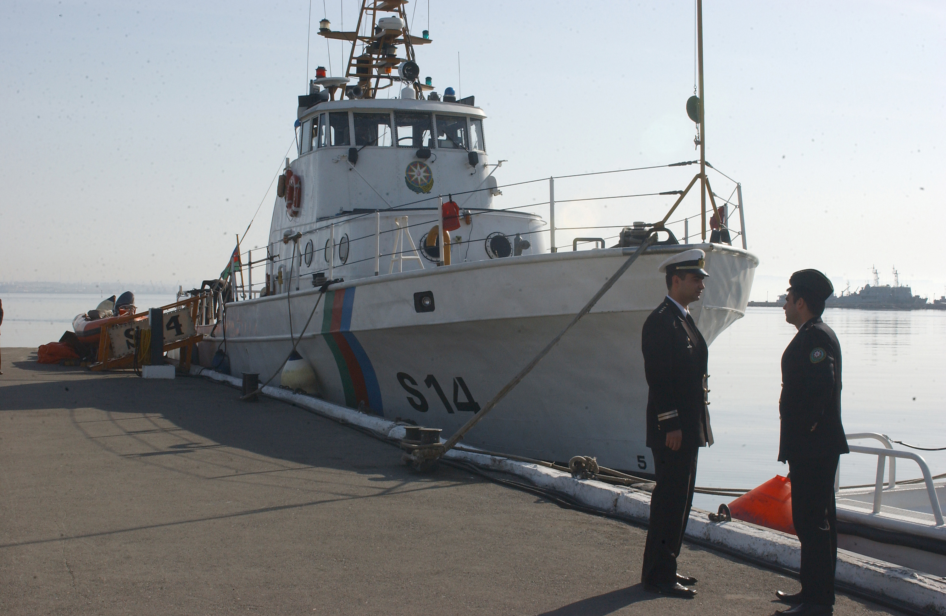 An old U.S. Coast Guard 82-foot patrol boat, now part of the Azeri Maritime Brigade, lies at anchor in Baku, Azerbaijan.